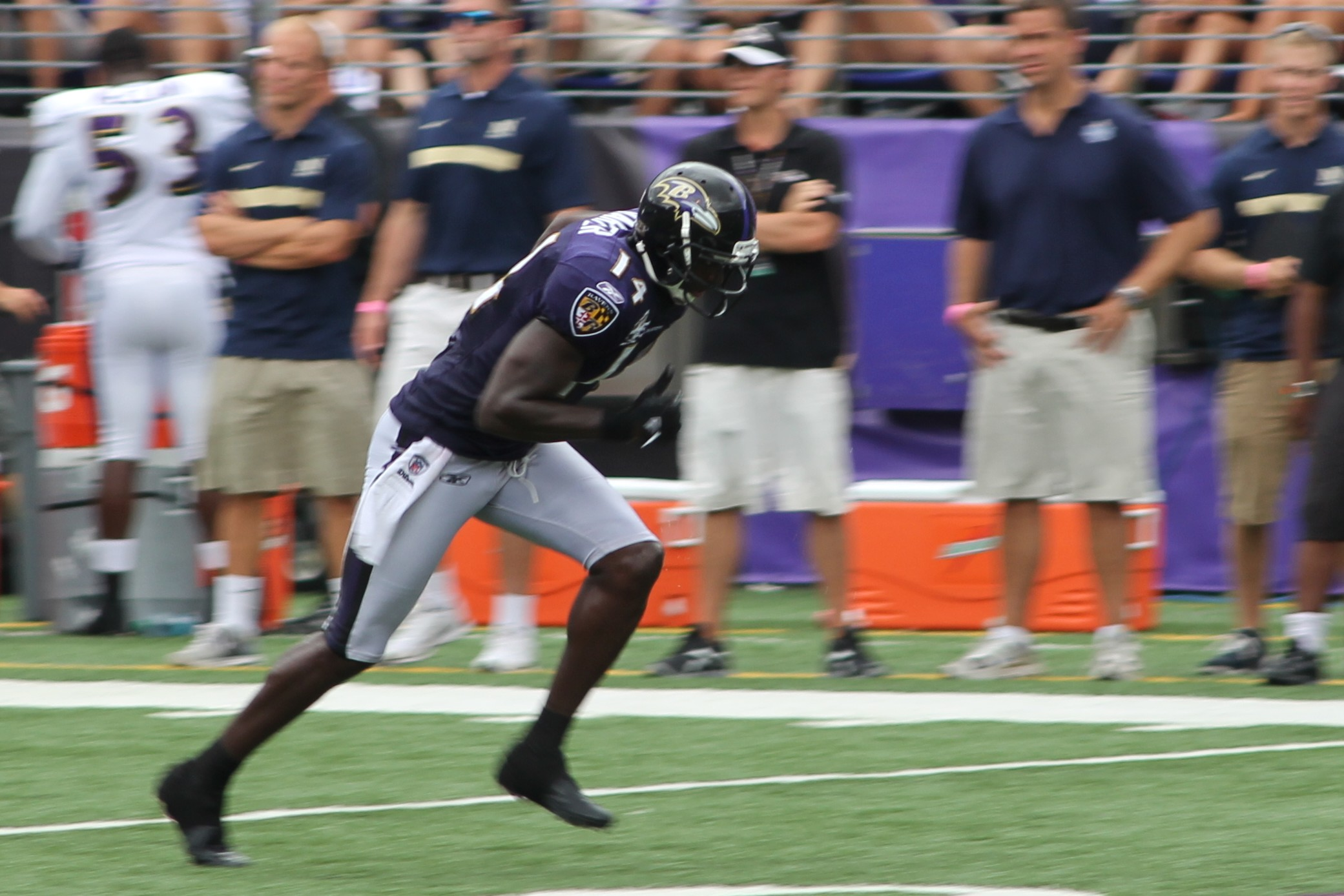 Justin Harper Practice at M&T Bank Stadium August 2011